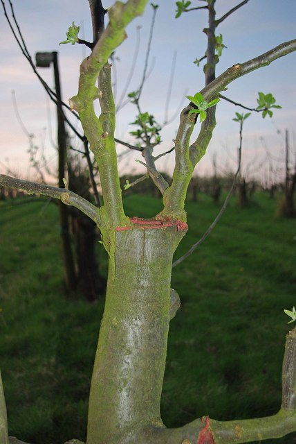 Fruit Grafting This picture shows a technique of working for one’s luck. The farmer has grafted two varieties of tree with different disease/pest resistance onto the same rootstock. If one half is affected by blight or infection the other may well still bear a profitable harvest.